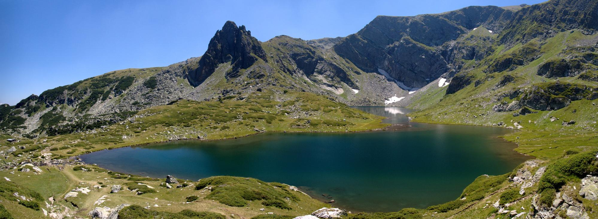 Bliznaka ezero (the twin), Seven Rila Lakes.